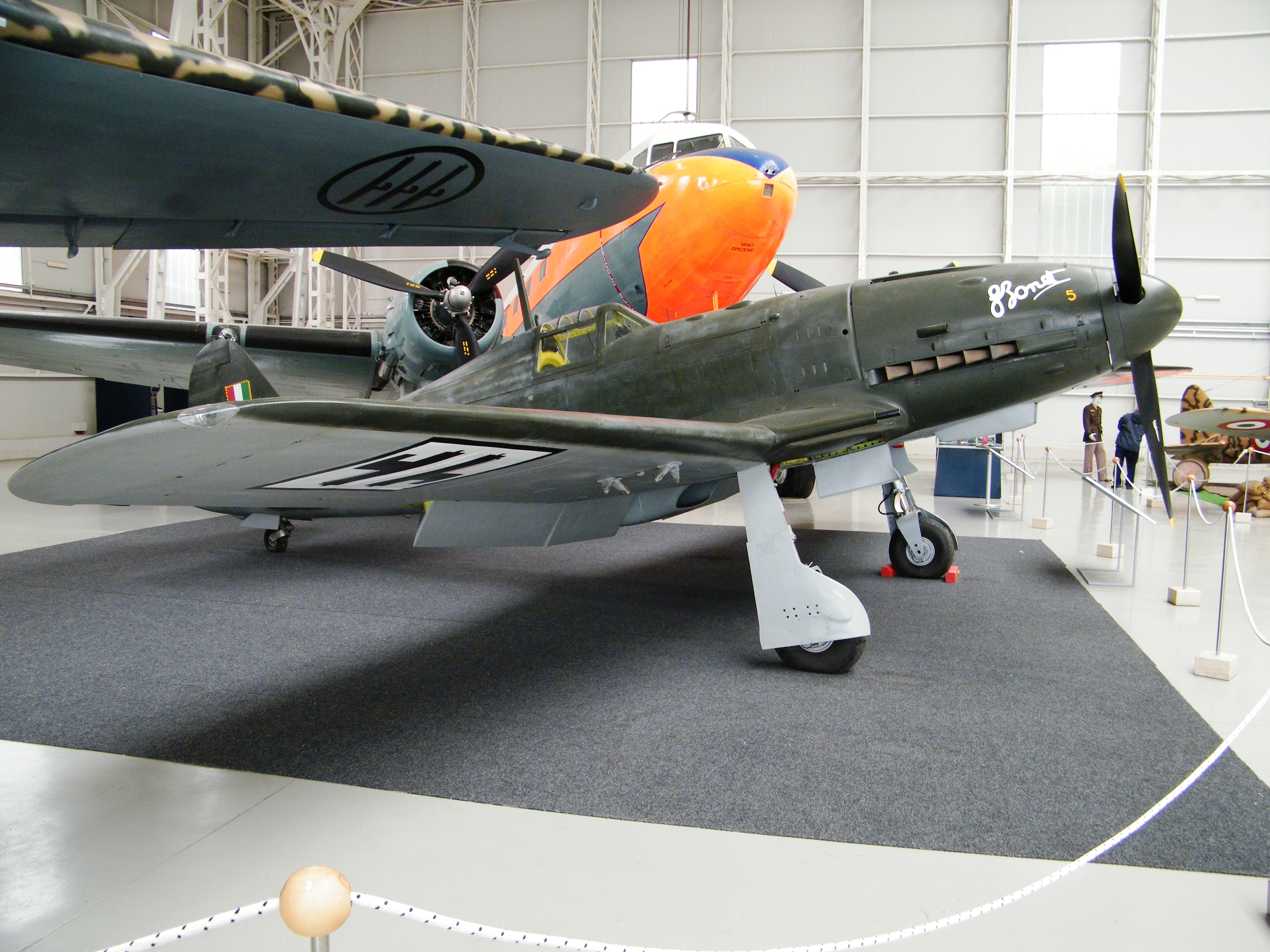 Fiat G.55 at the Italian Air Force Museum, Vigna di Valle in 2012